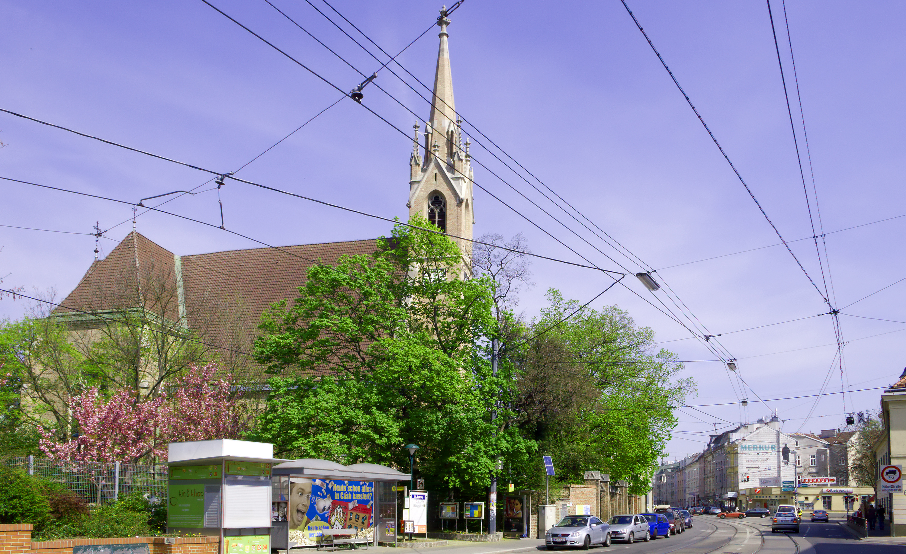 Linzer Straße near Nr. 424 in Vienna Penzing